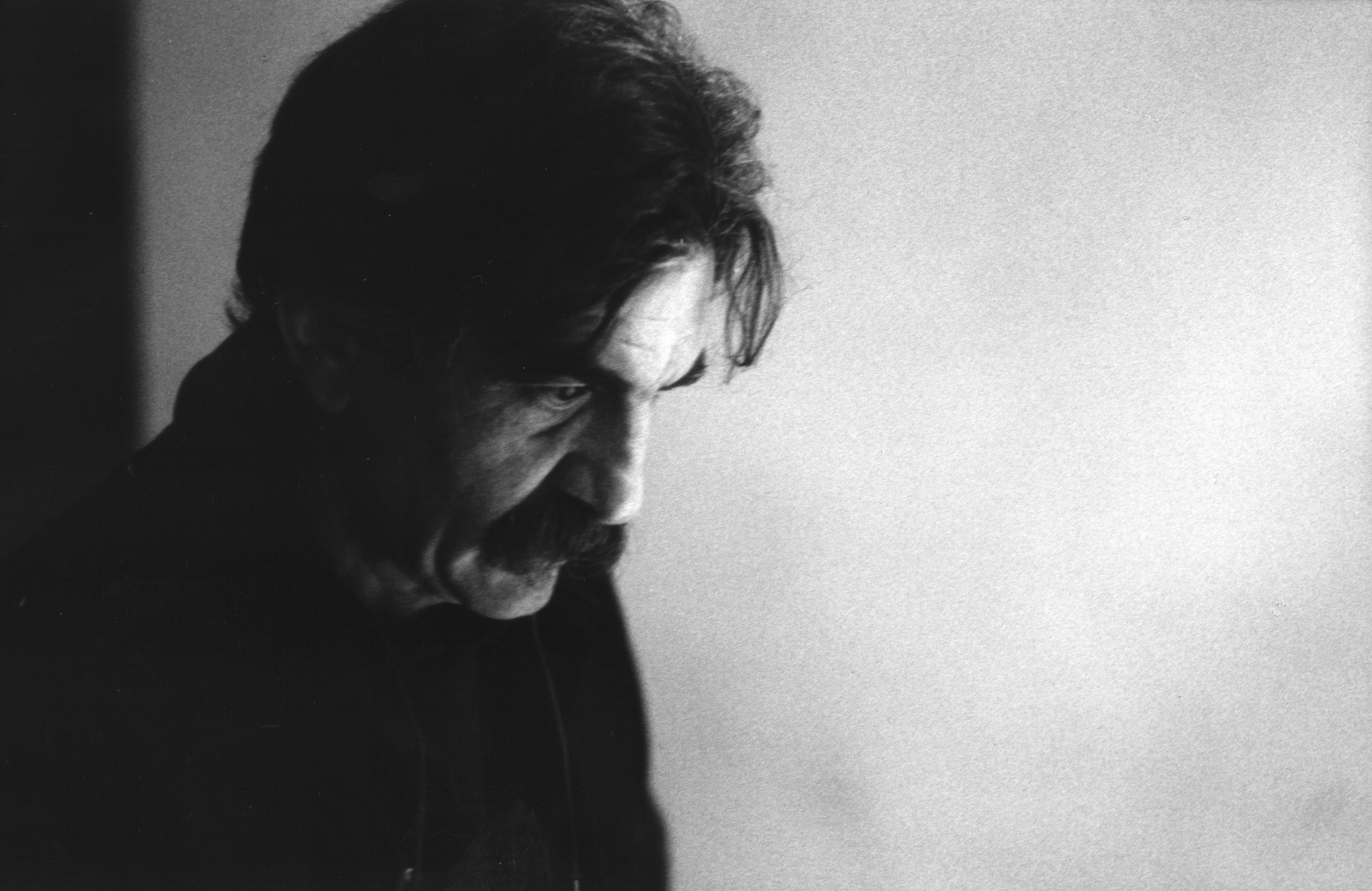 Sandro Martini at work in his studio. Photo by Giuseppe Varchetta